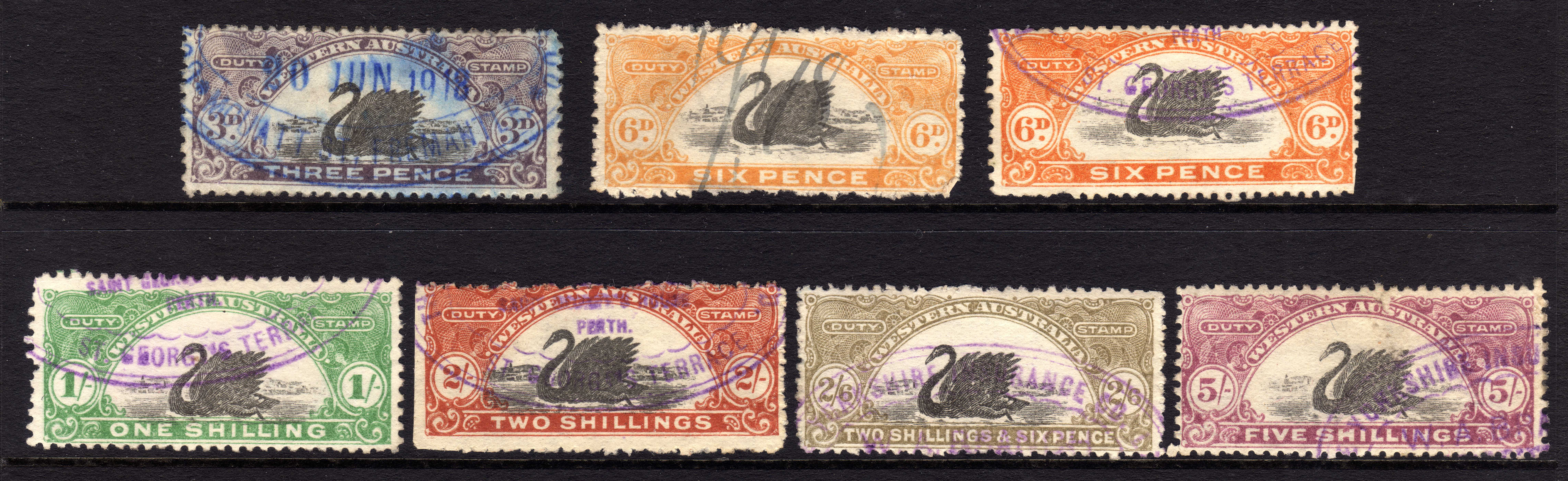 Western Australia stamp duty revenue stamps from 1918 or earlier.